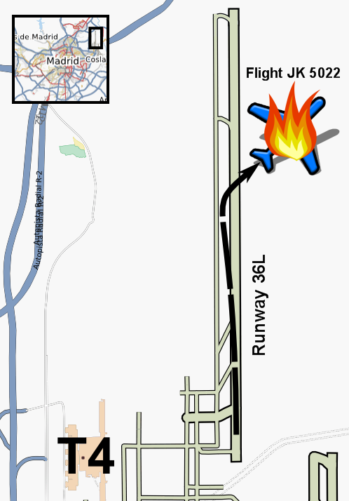 Localization of Spanair Flight JK 5022 crash.